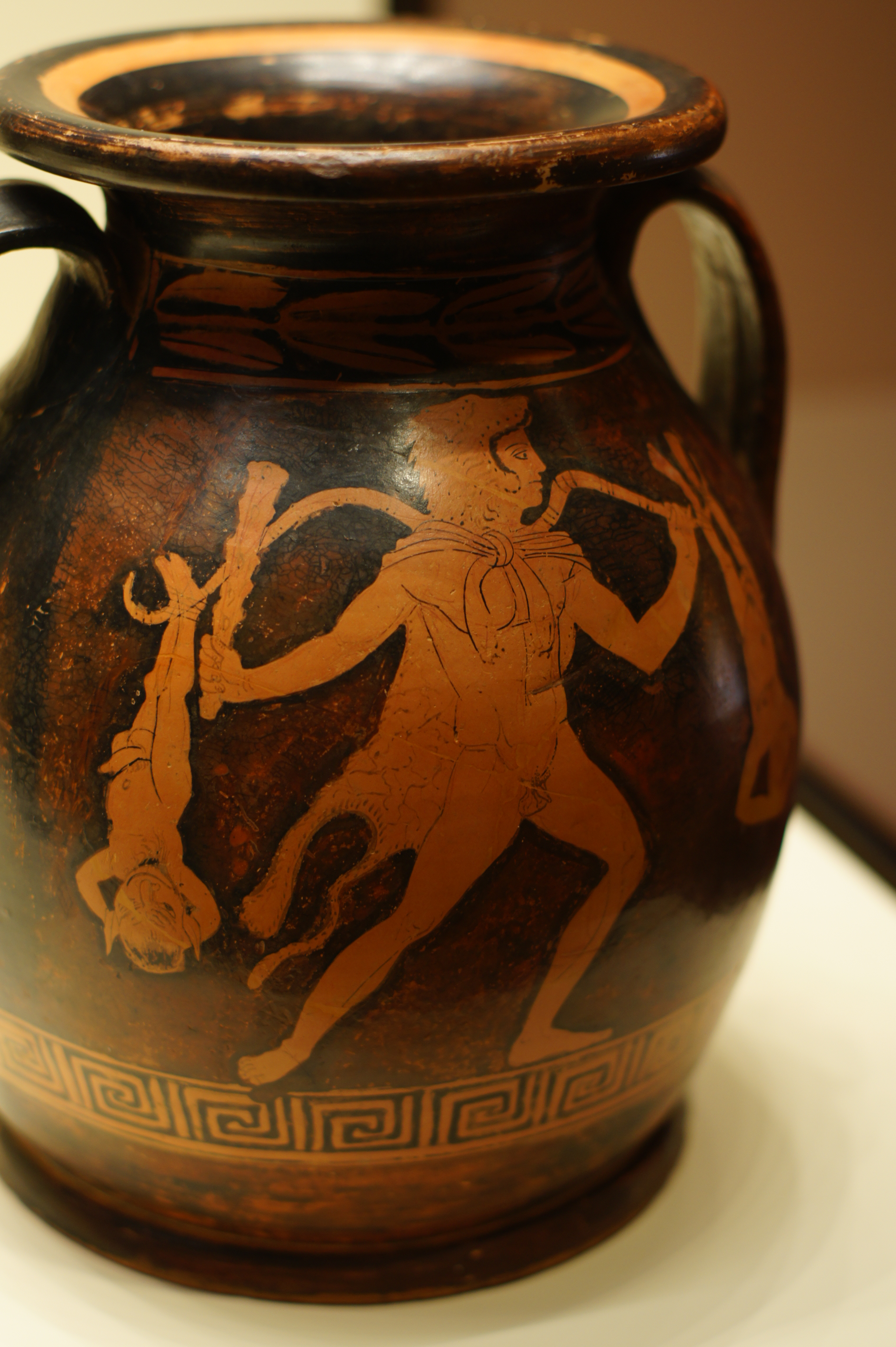 Storage jar with Herakles carrying the Kerkopes